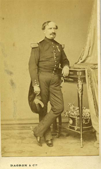 The commanding officer of the french 10th Dragonns Regiment Colonel Jean Françoise de la Filoilie de la Reymondine